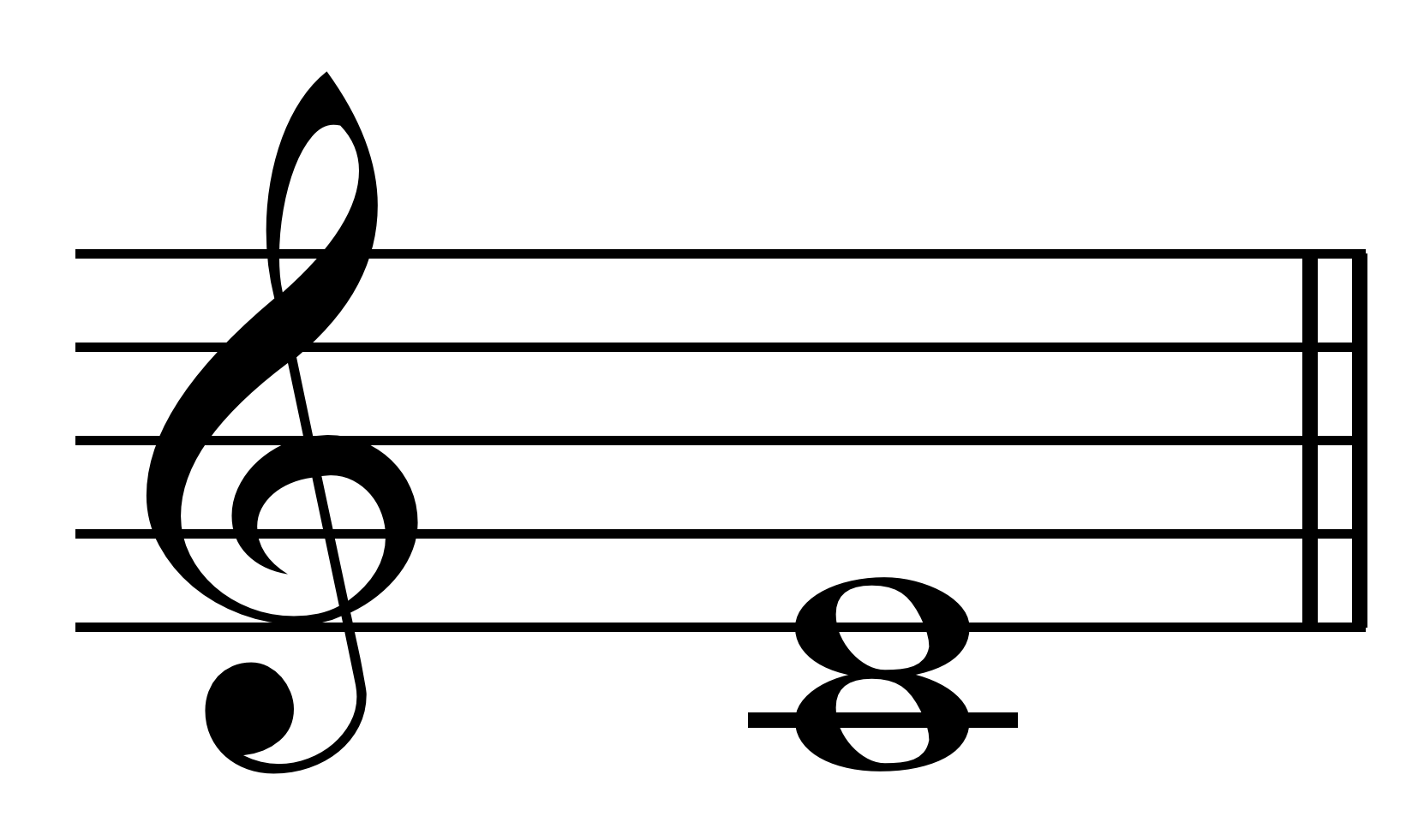 Major third on C = E. Just: 5:4 = 386.31 cents. Equal-tempered: 224/12:1:1 = 400 cents.